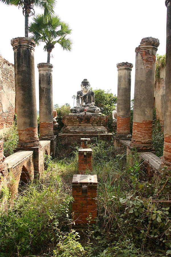 One of the many ruins at Ava (Innwa), the ancient capital of Myanmar (Burma).